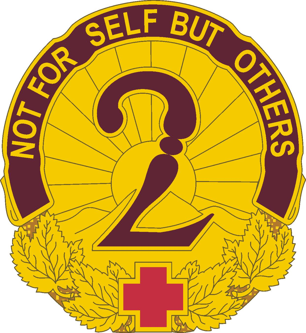 2nd General Hospital Distinctive Unit Insignia